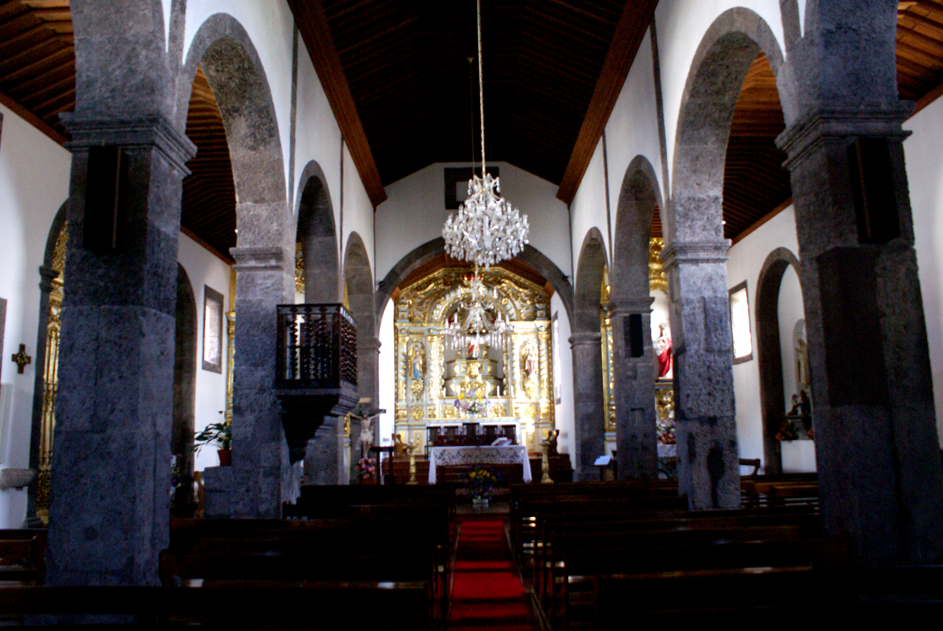 Interior of the Church of São Tiago Maior, Ribeira Seca, Calheta, São Jorge (Azores), Portugal